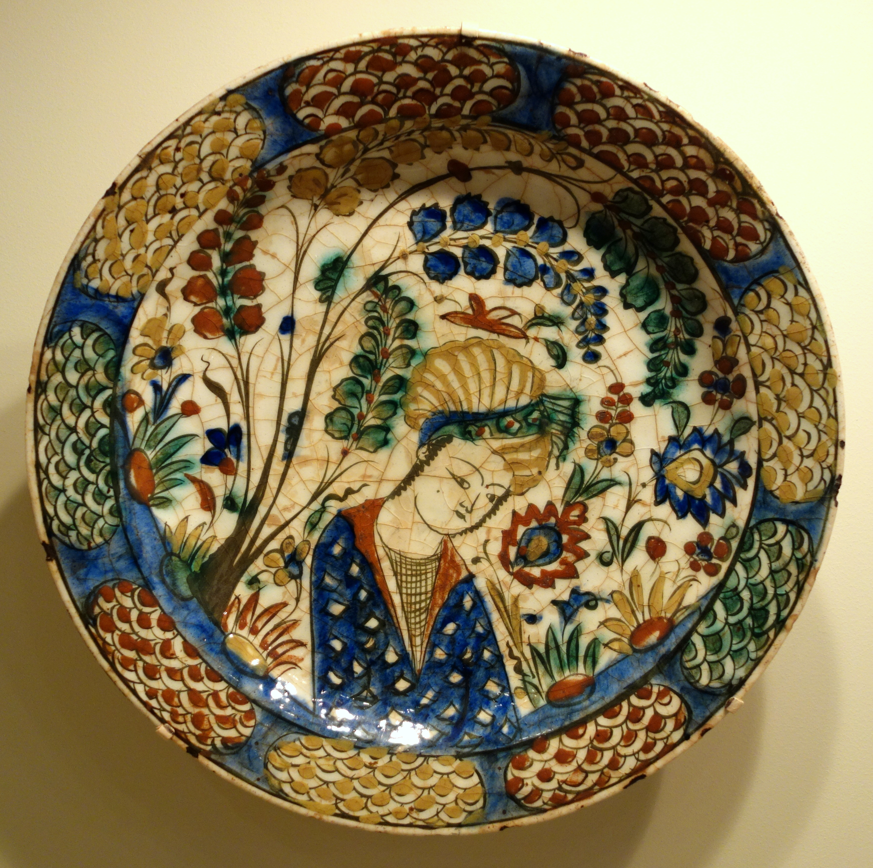 Exhibit in the Cincinnati Art Museum, Cincinnati, Ohio, USA. This artwork is in the public domain because the artist died more than 70 years ago.